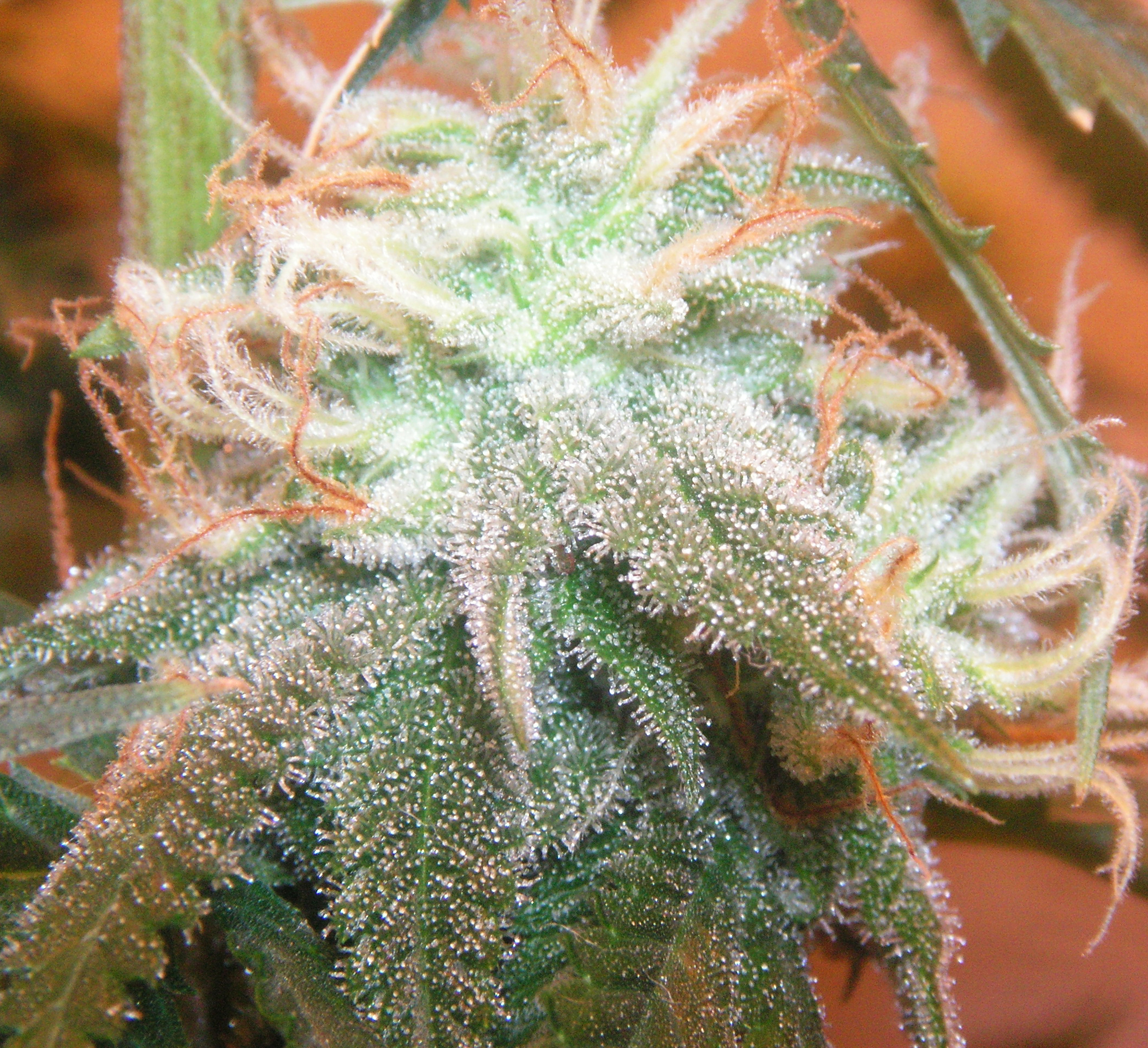 Sativa Bud